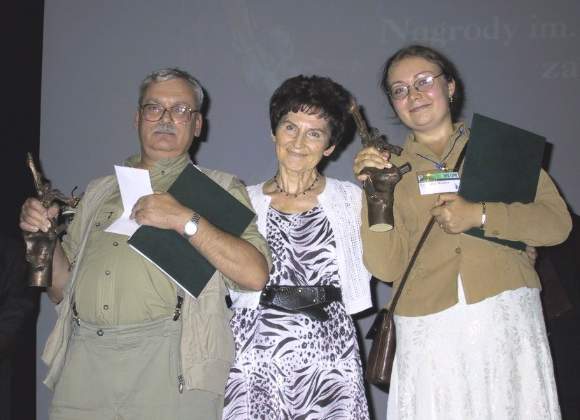 Janusz A. Zajdel Award 2002 winners at Polcon 2003 convention in Elbląg. Picture taken by Szymon Sokół.